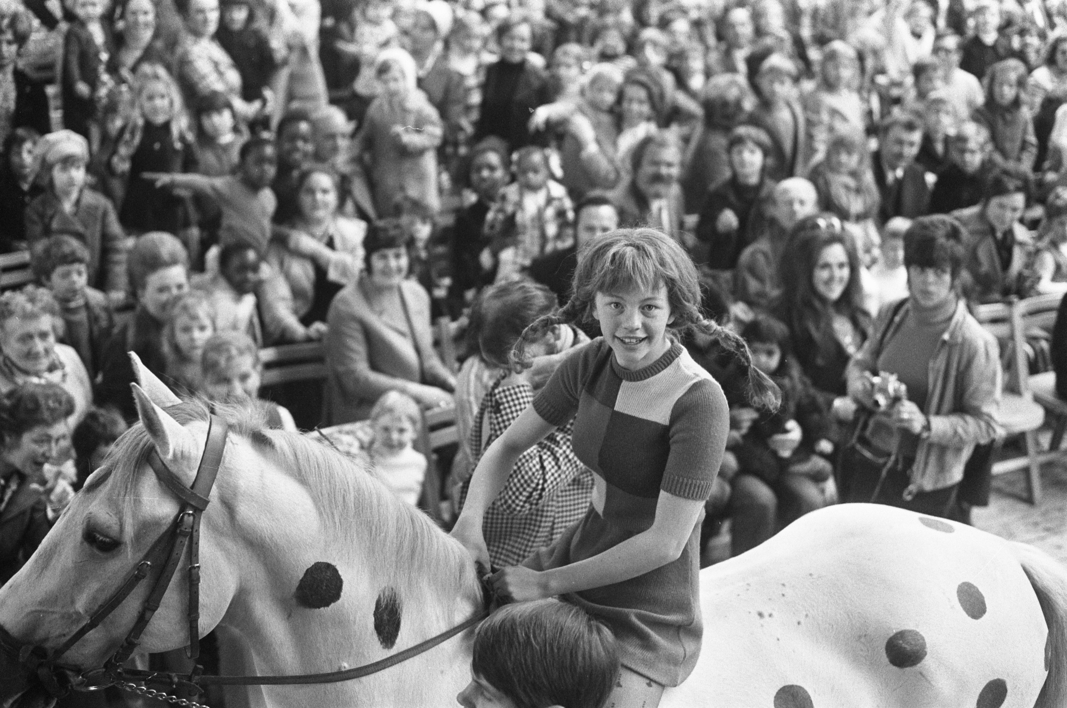 Inger Nilsson at the age of 12 as Pippi Longstocking at the RAI in Amsterdam 1972